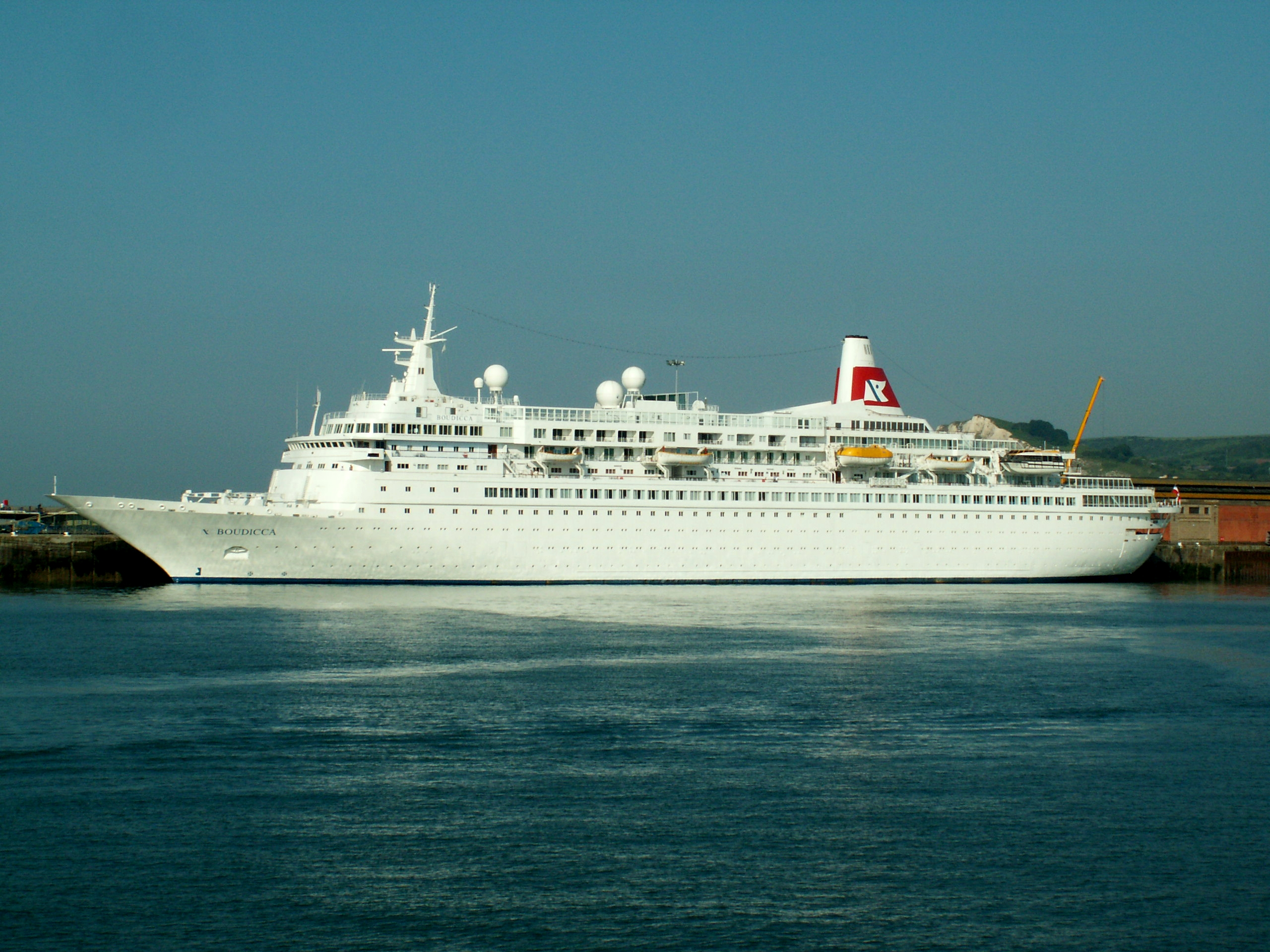 Boudicca - IMO 7218395 - Callsign C6VA3. Photographed in Dover, England.